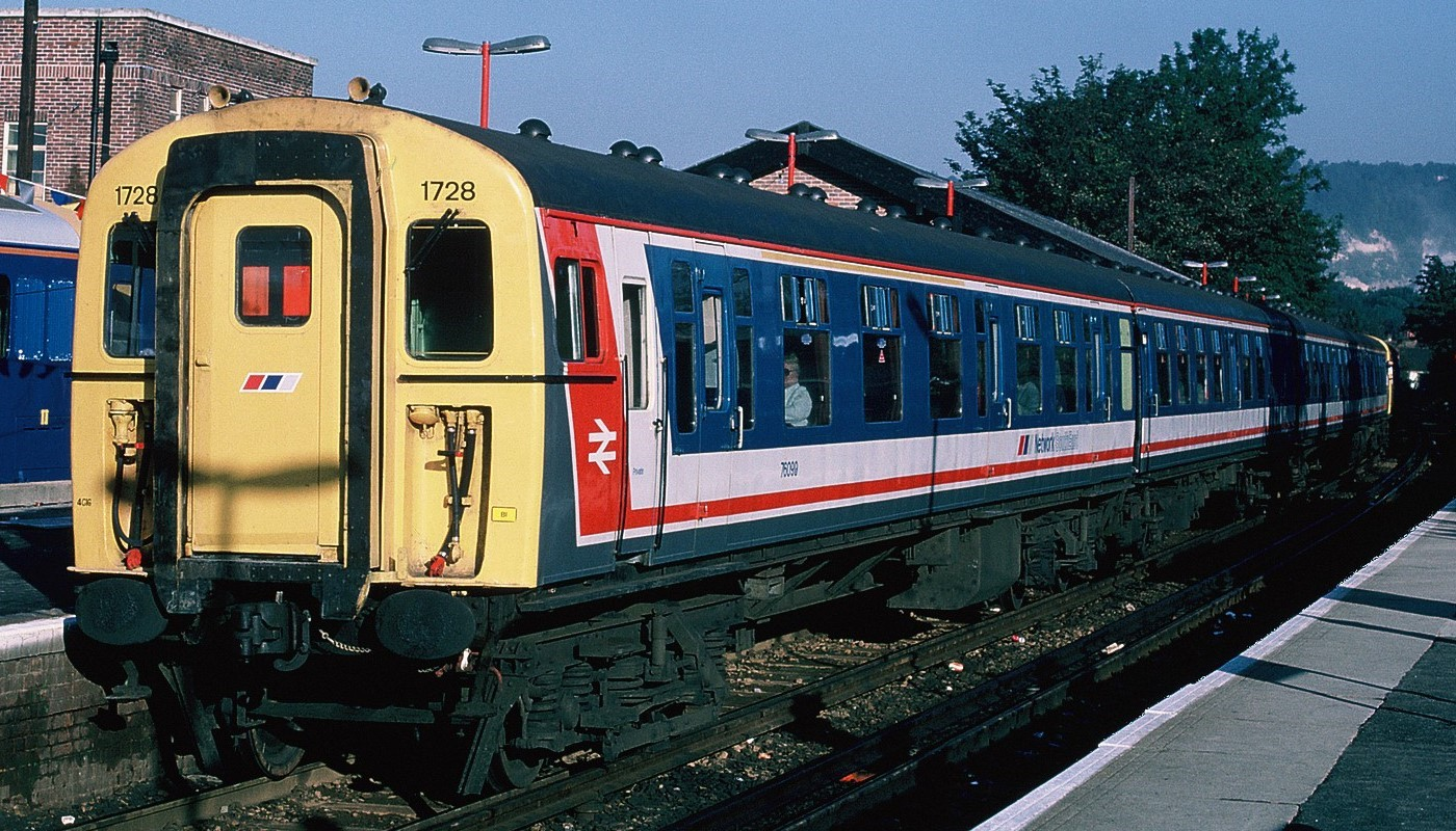 Original description: East Grinstead - Oxted electrification gala days on 26/27 September 1987 at Oxted. 4-CIG 1728 with Class 73 004 "Bluebell Railway". Note: cropped from the original on 13 February 2016 by Hassocks5489